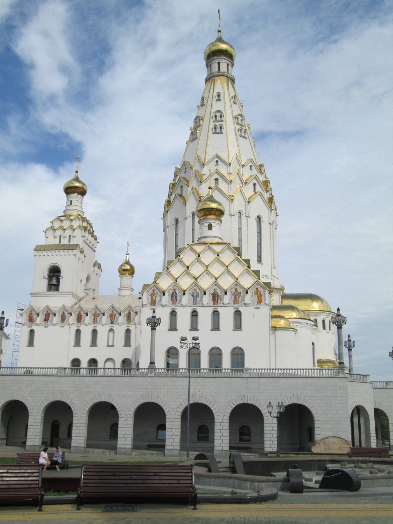 Pyershamayski District, Minsk, Belarus